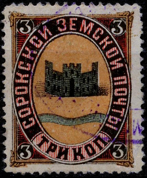 Soroca zemstvo (local) stamp, depicting the fortress.